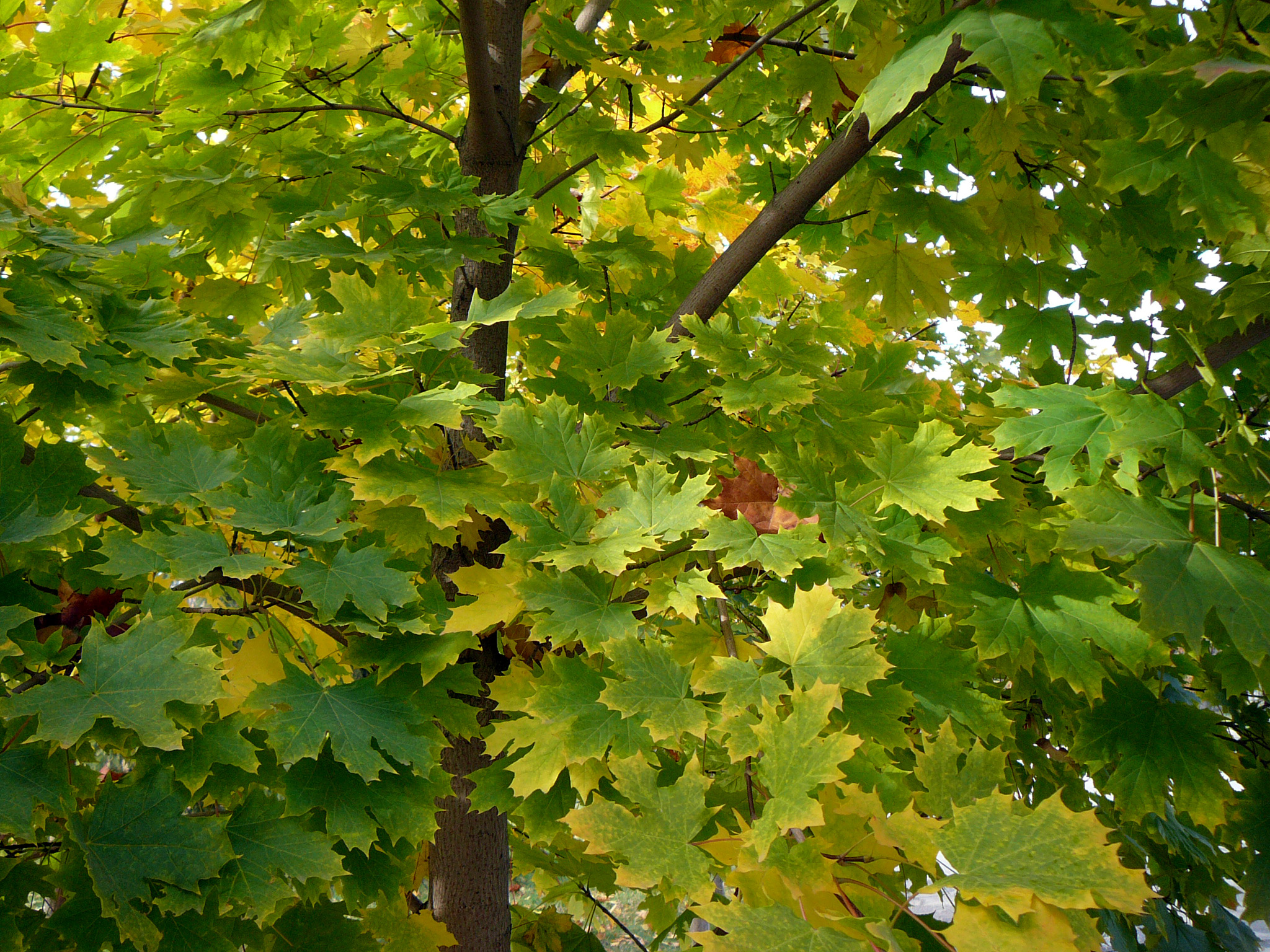 Autumn in Sofia, Bulgaria